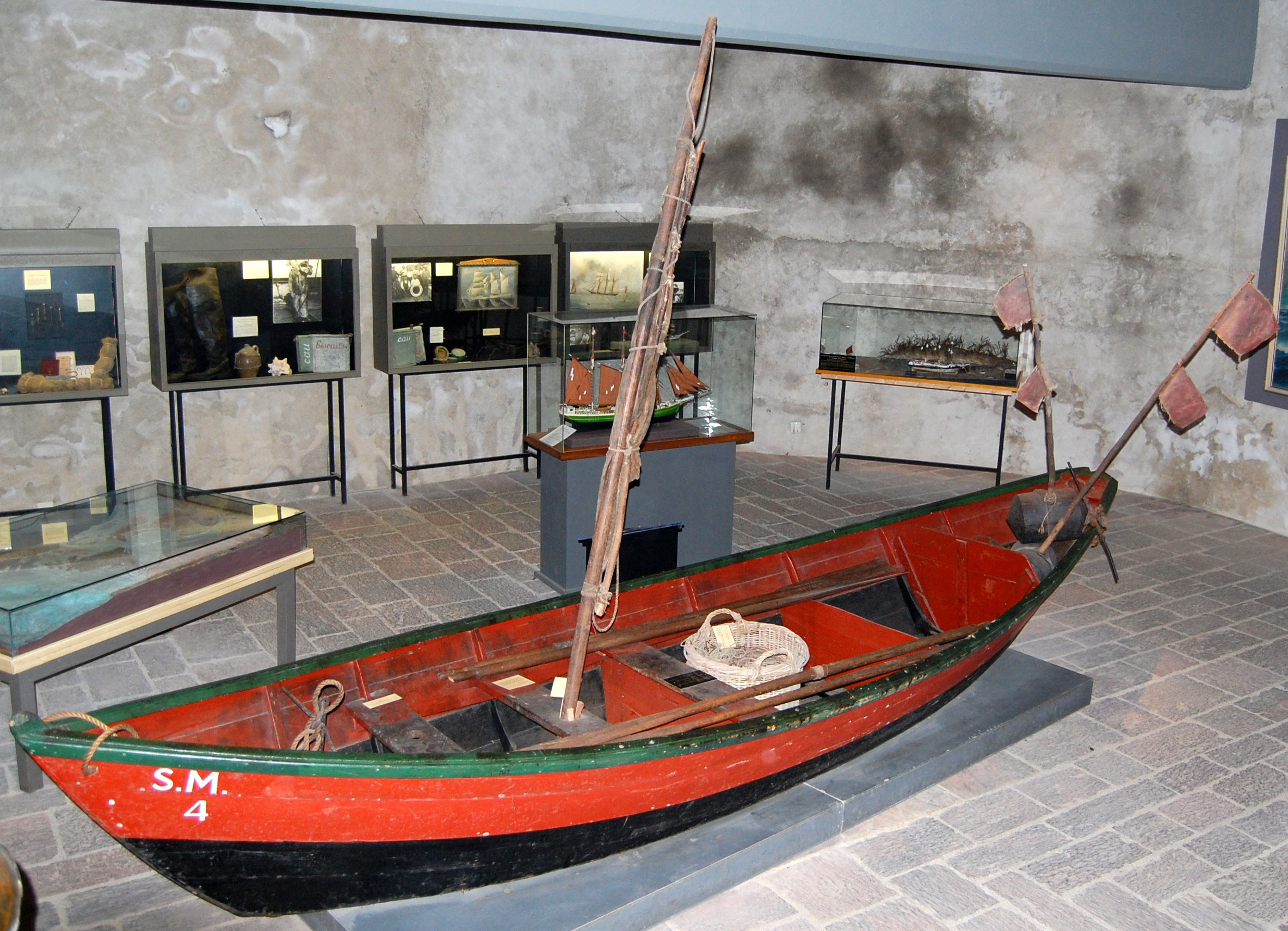 Dory équipped for the fishing Museum of history of Saint-Malo, Brittany, France